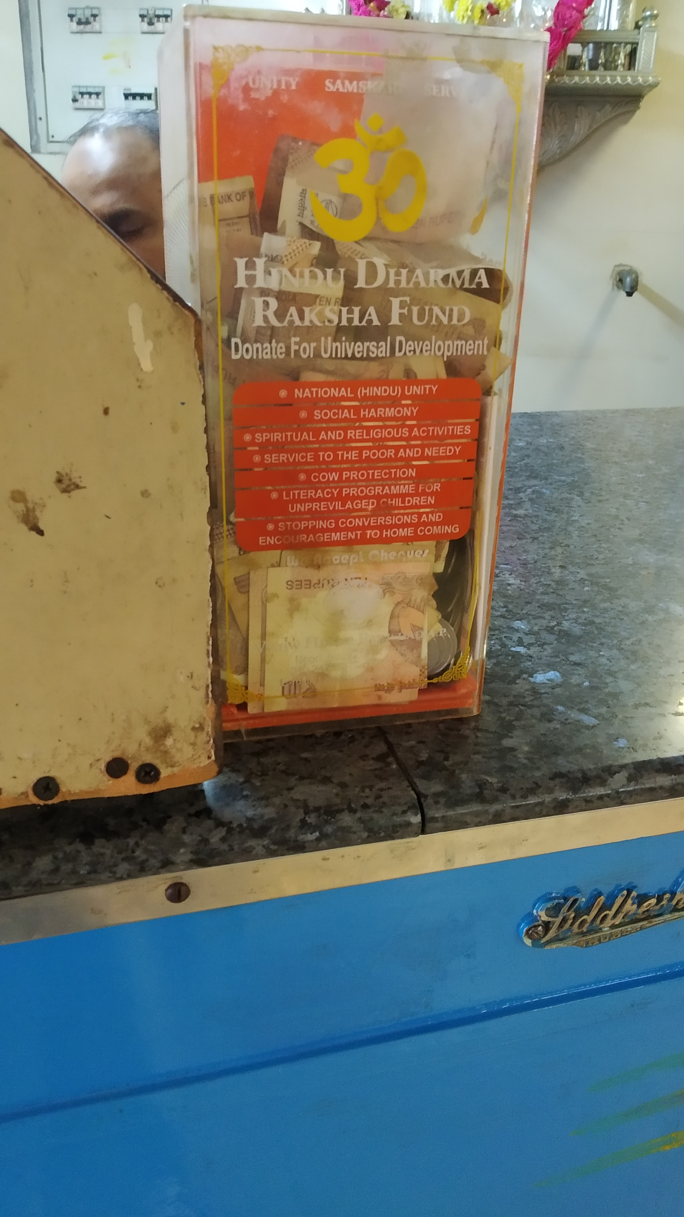 Hindu Dharma Raksha Fund